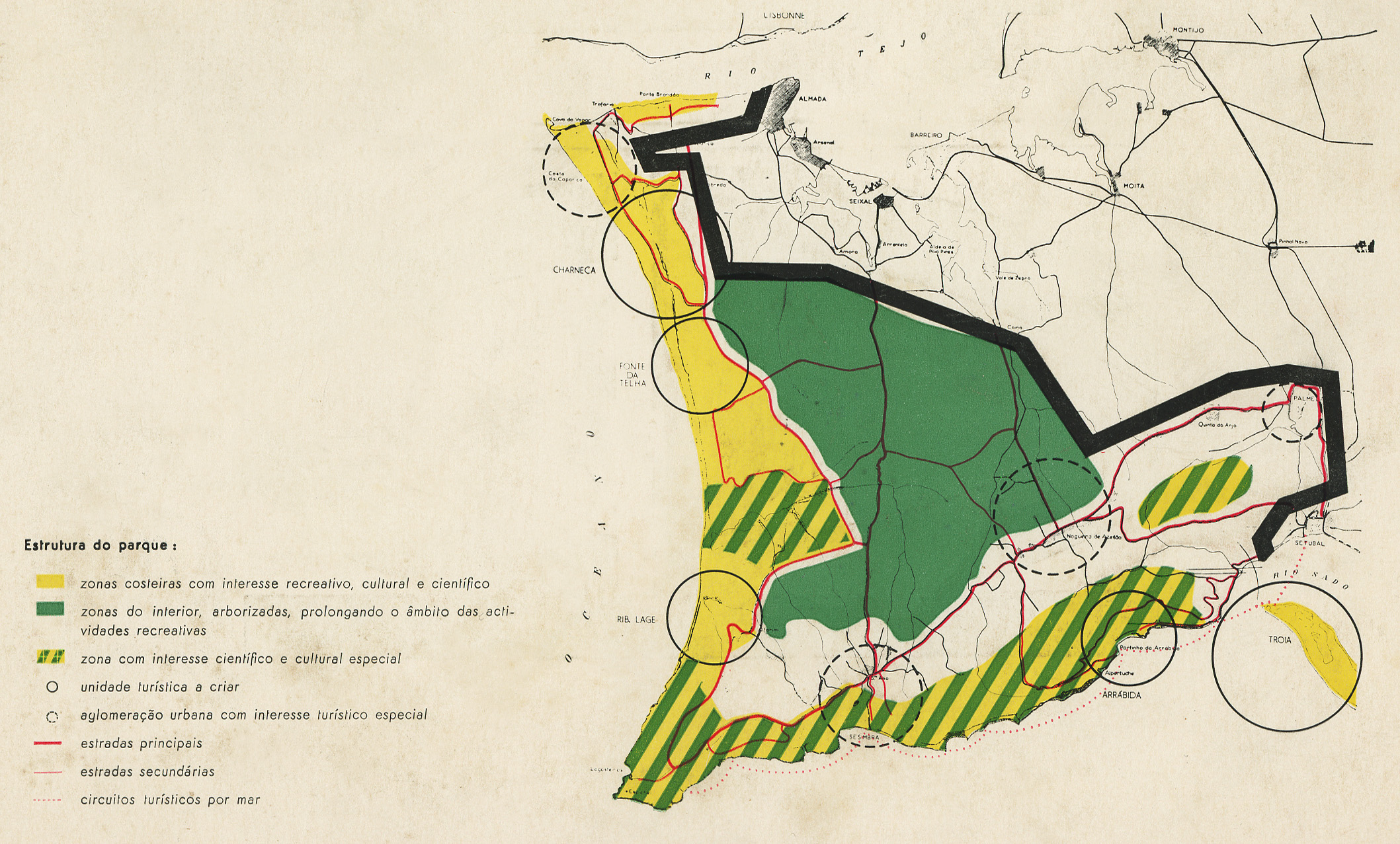 Setubal Peninsula Plan, 1964; Arch. José Rafael Botelho